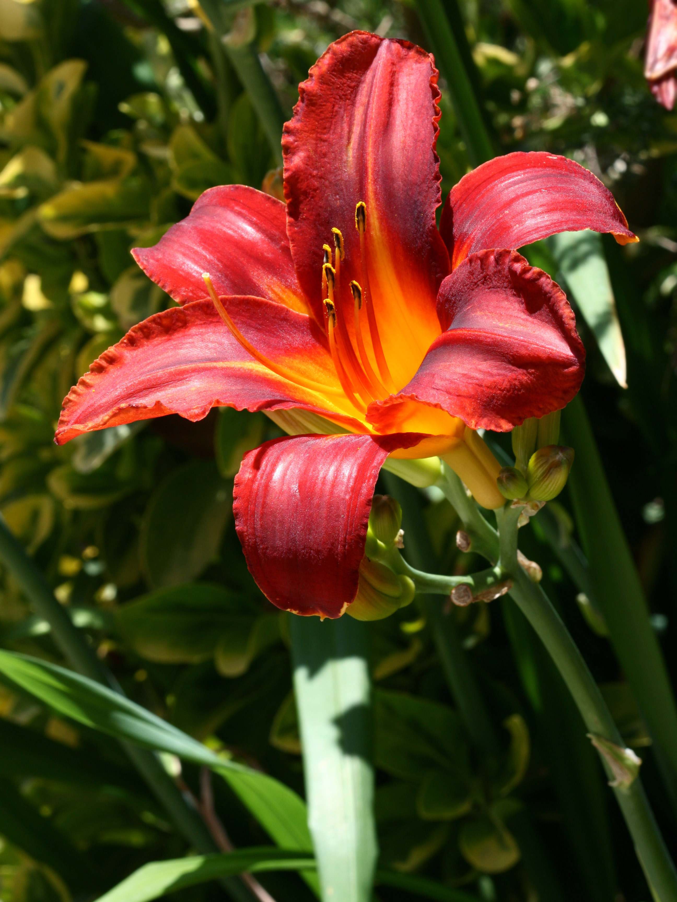 A red and yellow Daylily. Daylilies fall into the Hemerocallis genus plants. This color combination is generally called a Red Magic lily.